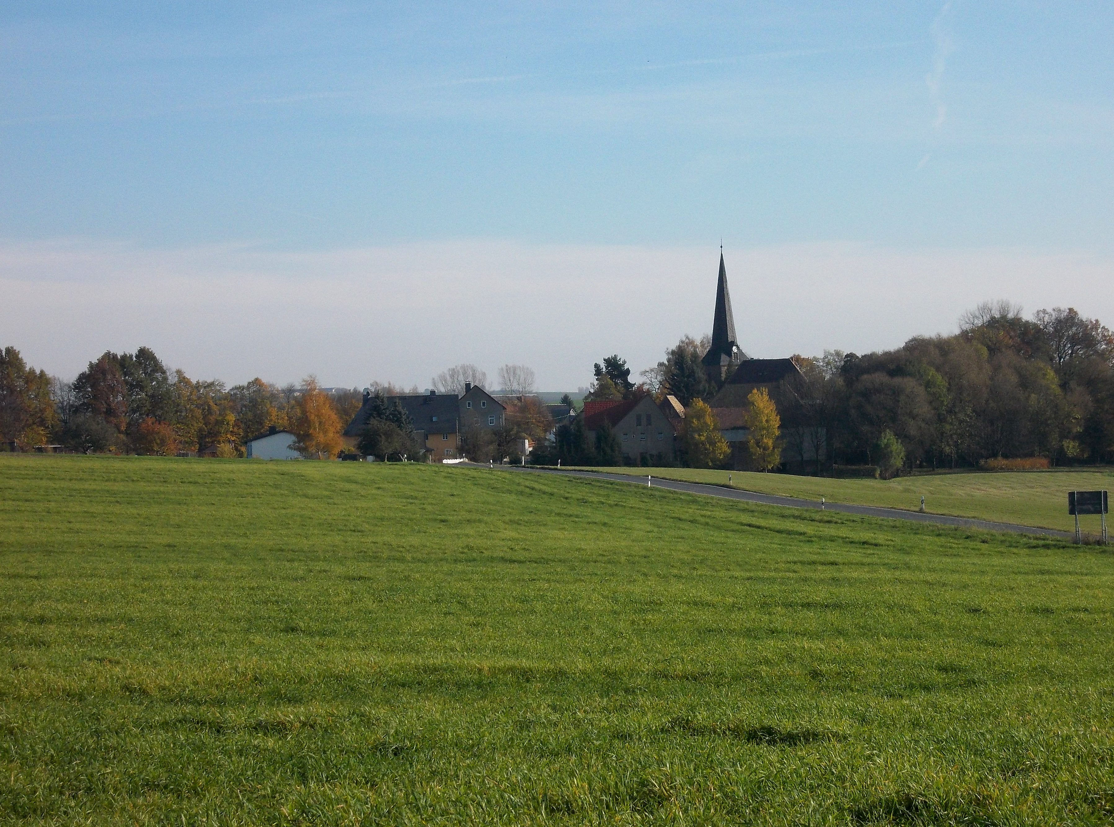 Schwarzbach (Königsfeld, Mittelsachsen district, Saxony) from the north-west